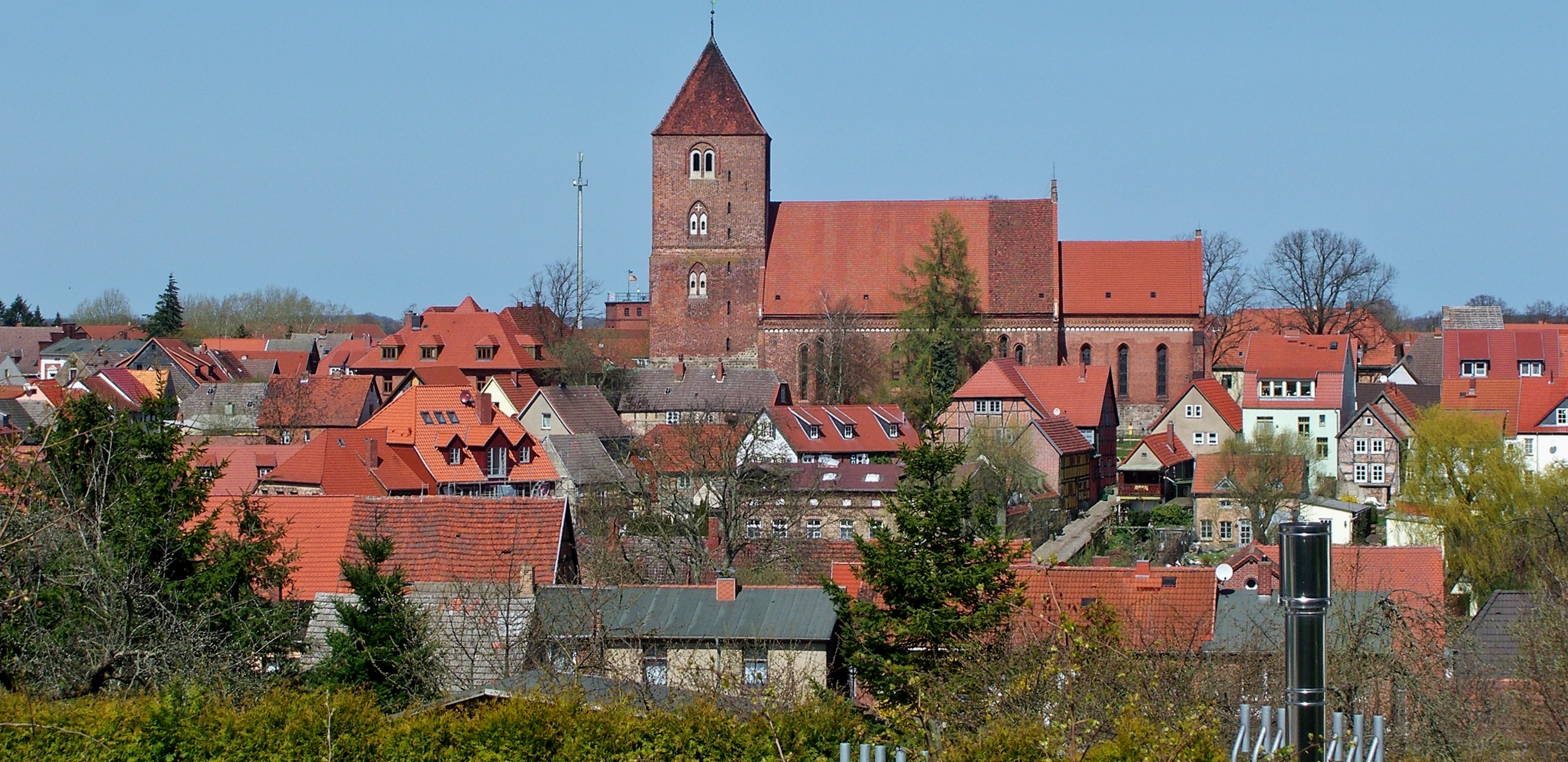 Plau am See 2010